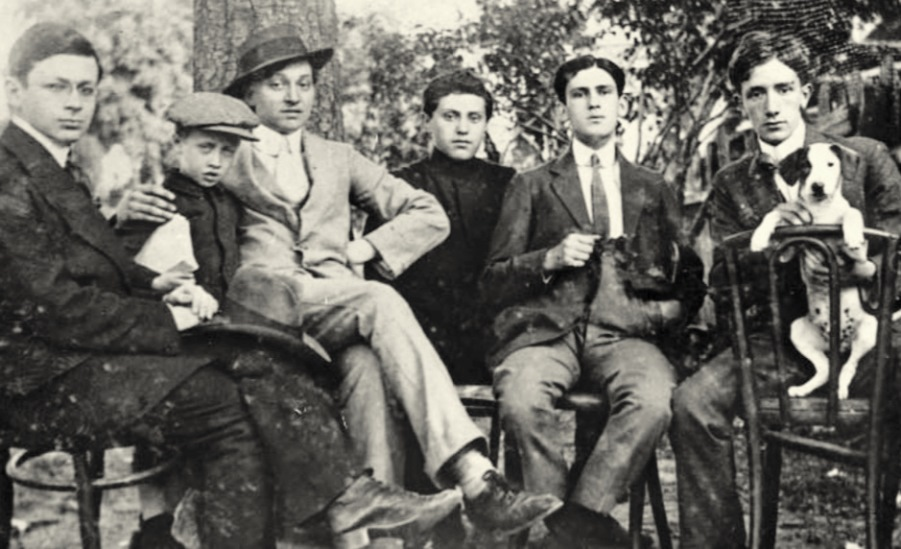 Founders and writers of the Simbolul art review, photographed in Bucharest. From left (excluding unknown child): Samuel Rosenstock ("Tristan Tzara"), Marcel Janco, Jules Janco, Poldi Chapier, Ioan Iovanaki ("Ion Vinea"). All of them in their teens at the time.